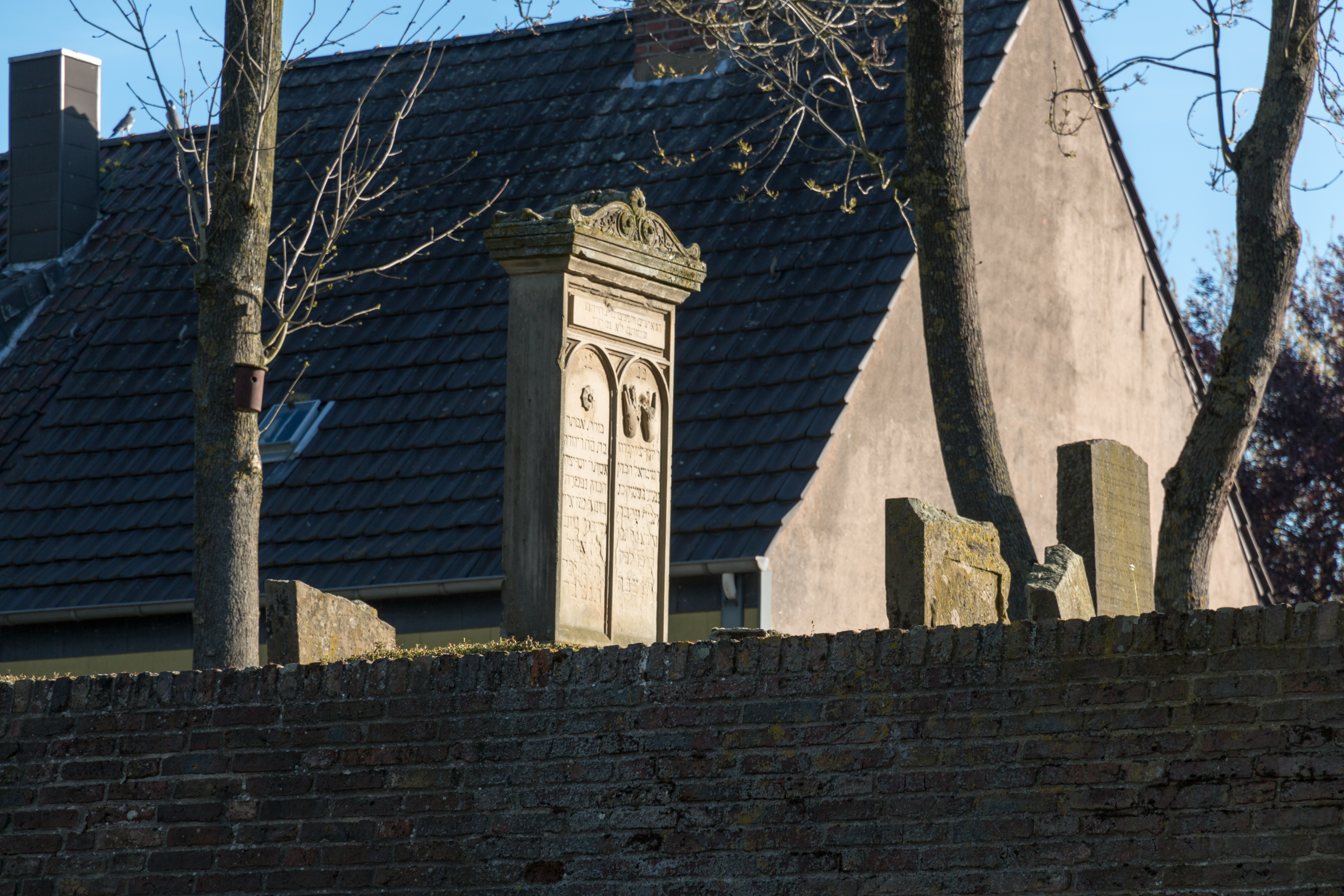 Old jewish cemetery at “Am Weißen Turm” in Rees, North Rhine-Westphalia, Germany This image shows a heritage building in Germany, located in the North Rhine-Westphalian city Rees (no. A 61).